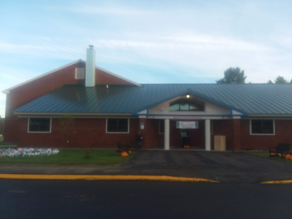 Front entrance of ECS